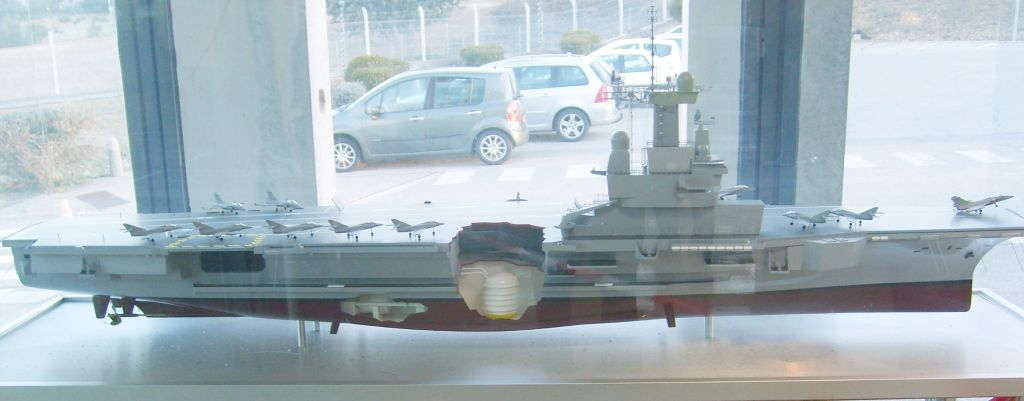 model of French Aircraft carrier Charles de Gaull. Model at entrance hall of CEA centre